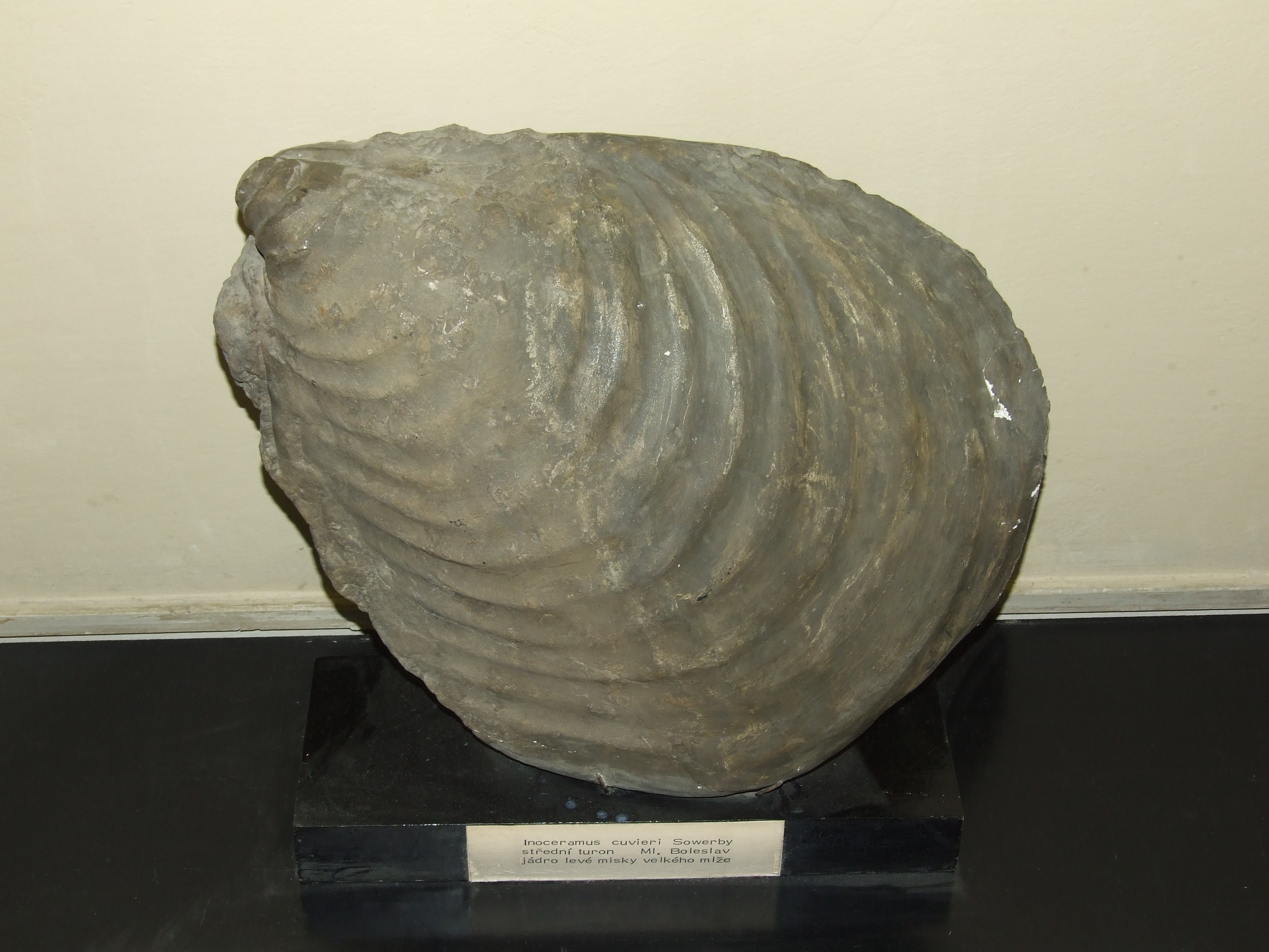 Palaeontological exhibition, National Museum in Prague